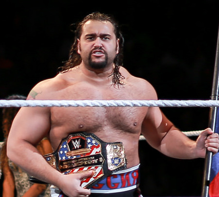 WWE U.S. Champion Rusev